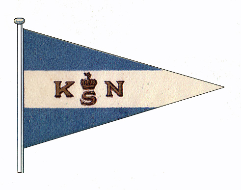 Burgee of the Kongelig Norsk Seilforening (Royal Norwgian Yacht Club), adopted in 1906. Based on image in the Yearbook of Kongelig Norsk Seilforening, Kristiania 1907.